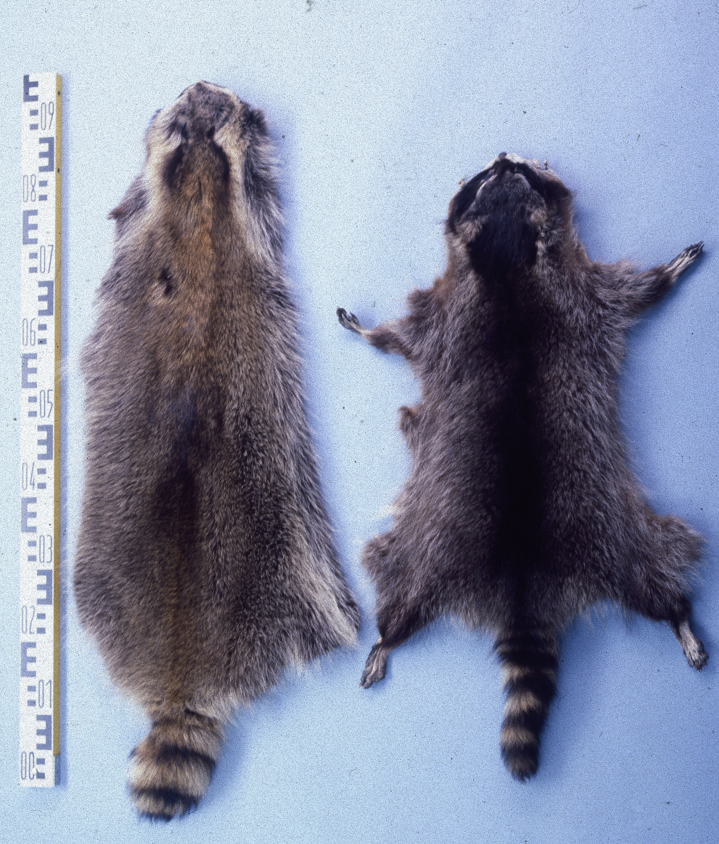 Northamerican raccoon fur skins (Procyon lotor). Fur skin collection, Bundes-Pelzfachschule, Frankfurt/Main, Germany